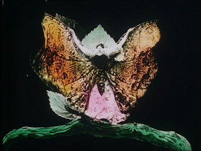 Photogram of Metamorphoses du papillon directed by Gaston Velle ans stencil colored by Segundo de Chomón's workshop in Barcelona.